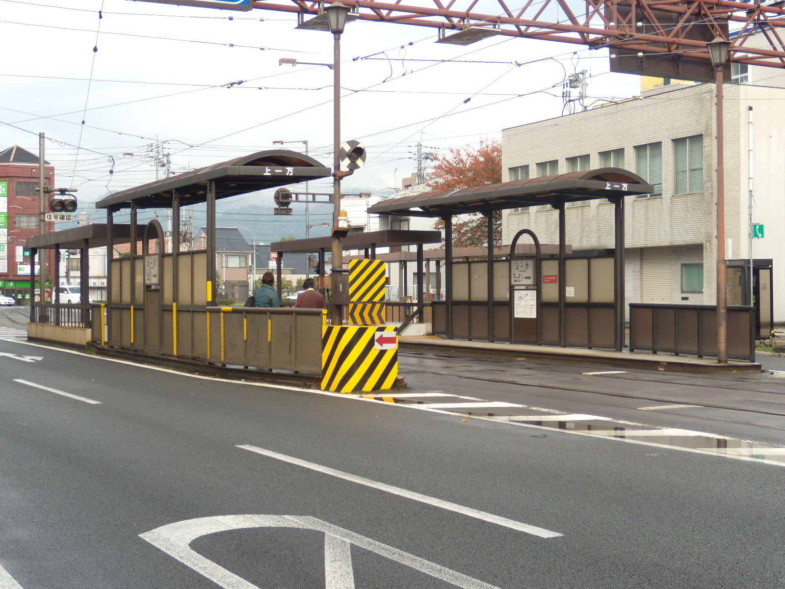 Iyo railway Kami-ichiman Station